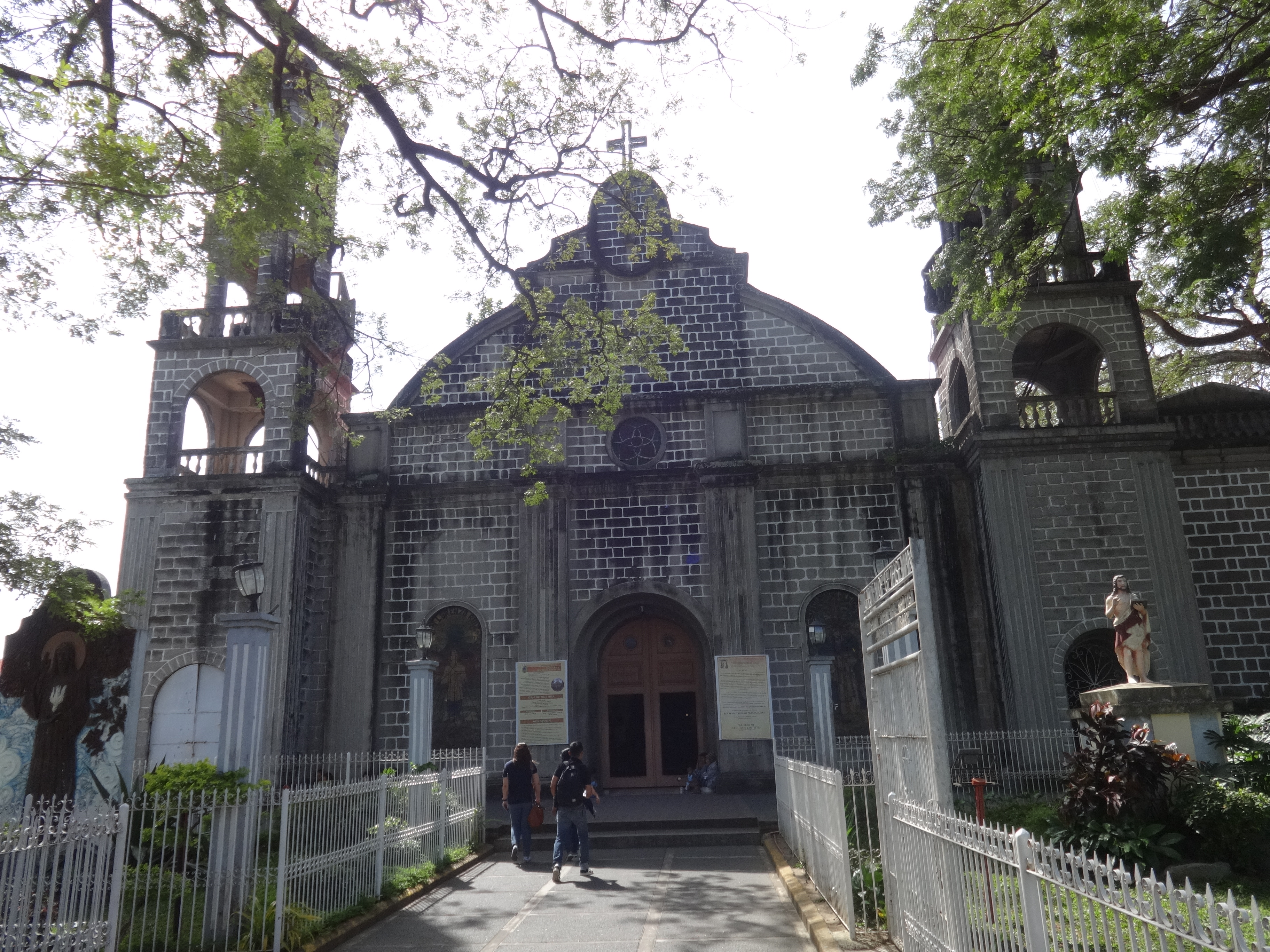 Saint John the Baptist Parish Church (Calamba Church) at Poblacion, Calamba City, Laguna